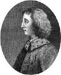 Malcolm II, King of the Scots Gàidhlig: Maol Chaluim II, Rìgh na h-Alba